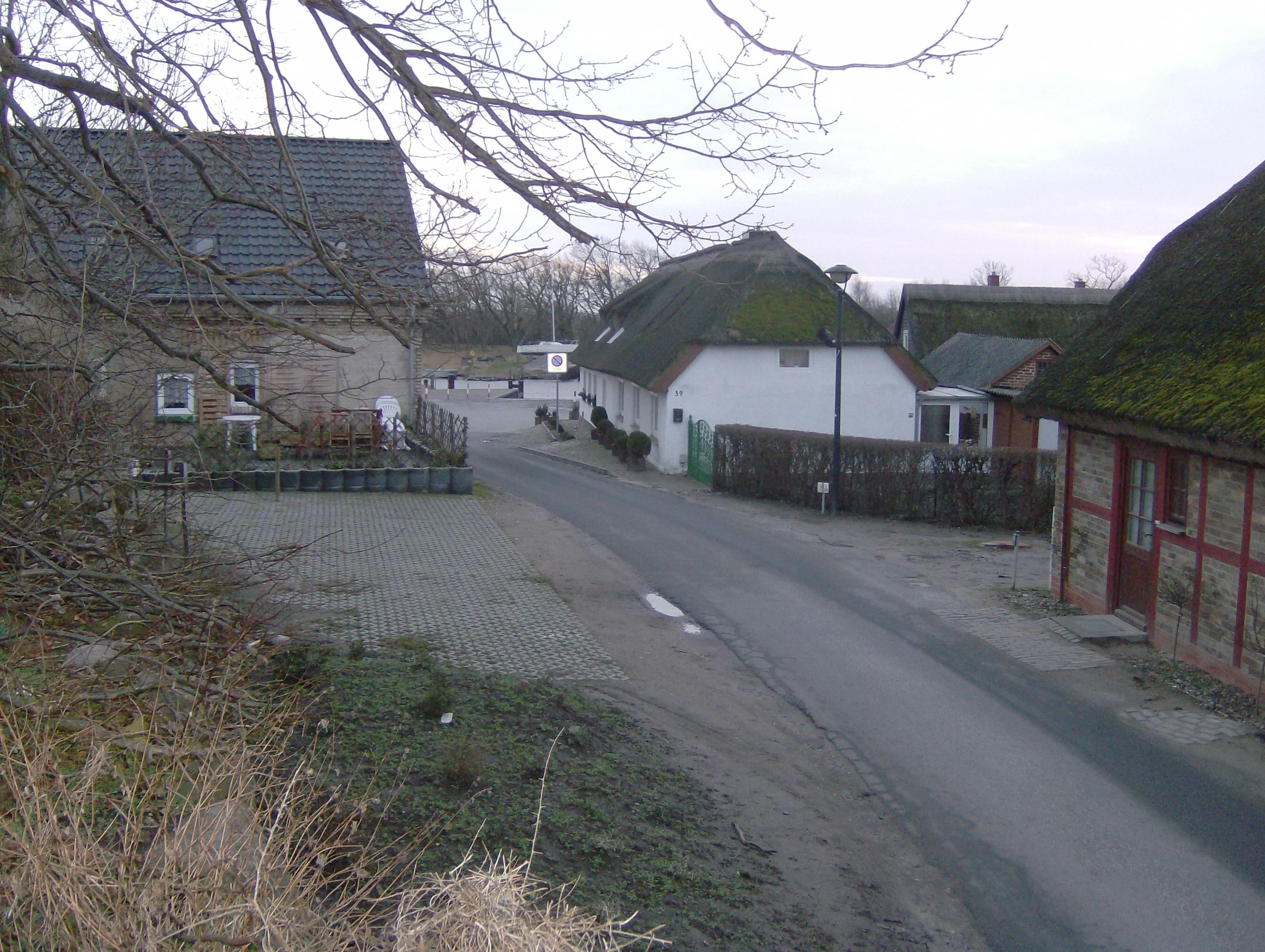 Fischermens homes in the habour in Schaprode